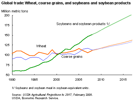 Global trade in soybeans and soybean products has risen rapidly since the early 1990s, and has surpassed not only wheat—the traditional leader in agricultural commodity trade—but also total coarse grains (corn, barley, sorghum, rye, oats, millet, and mixed grains). Continued strong growth in global demand for vegetable oil and protein meal, particularly in China, is expected to maintain soybean and soybean-product trade well above wheat and coarse grains trade throughout the next decade. Wheat, coarse grains, and oilseeds (including soybeans) compete with each other and with other crops for limited cropland. Higher prices for vegetable oils, partially the result of increased demand for biodiesel, are bringing previously uncropped land in Brazil and Indonesia into soybean and palm oil production.